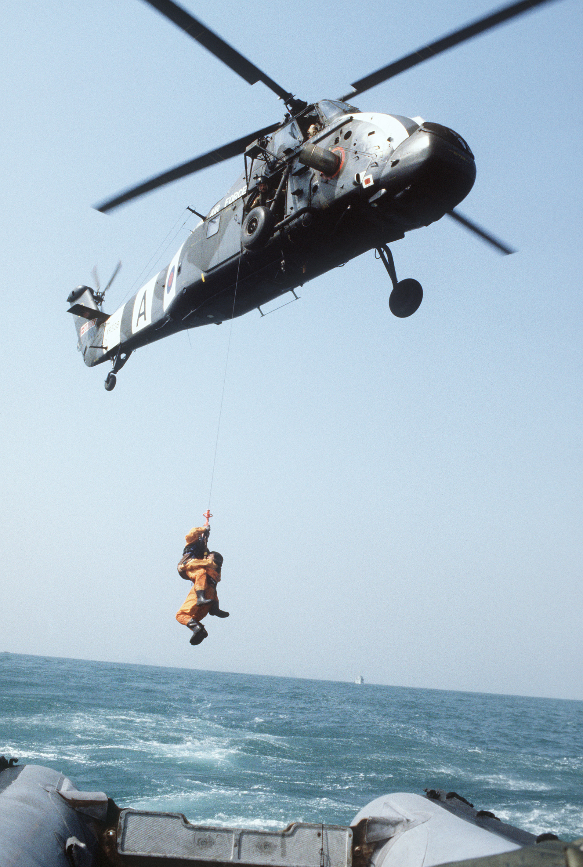 The survivors of a simulated aircraft crash are hoisted aboard a Royal Air Force Westland Wessex HC2 helicopter (s/n XR528) from No. 28 Squadron during exercise "SAREX '83", a search and rescue exercise. The helicopter transported them to a Hong Kong police boat. 28 Squadron was based at RAF Sek Kong from 1978 to 1996.